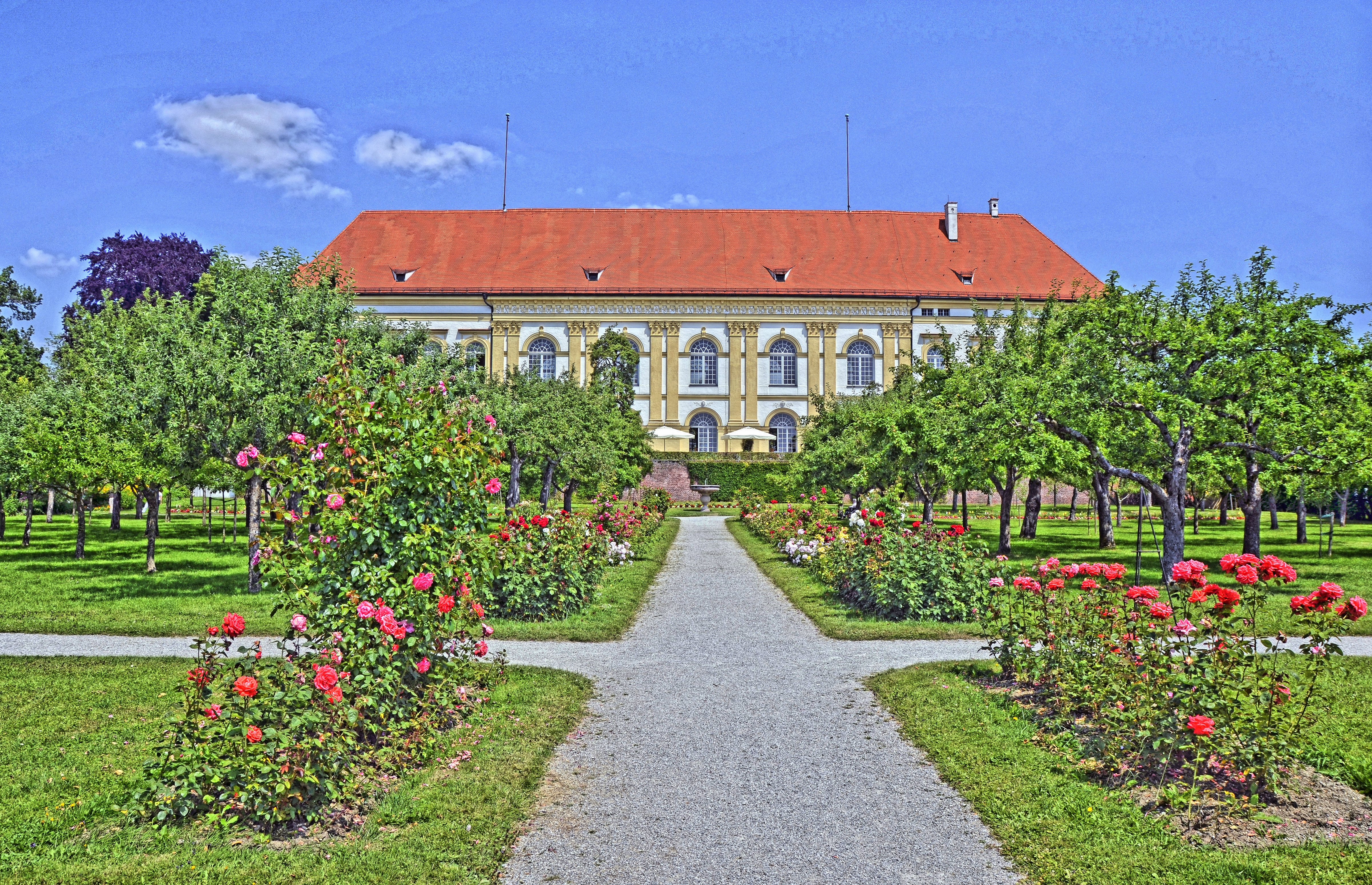 Dachau Castle and parc (tone mapping)